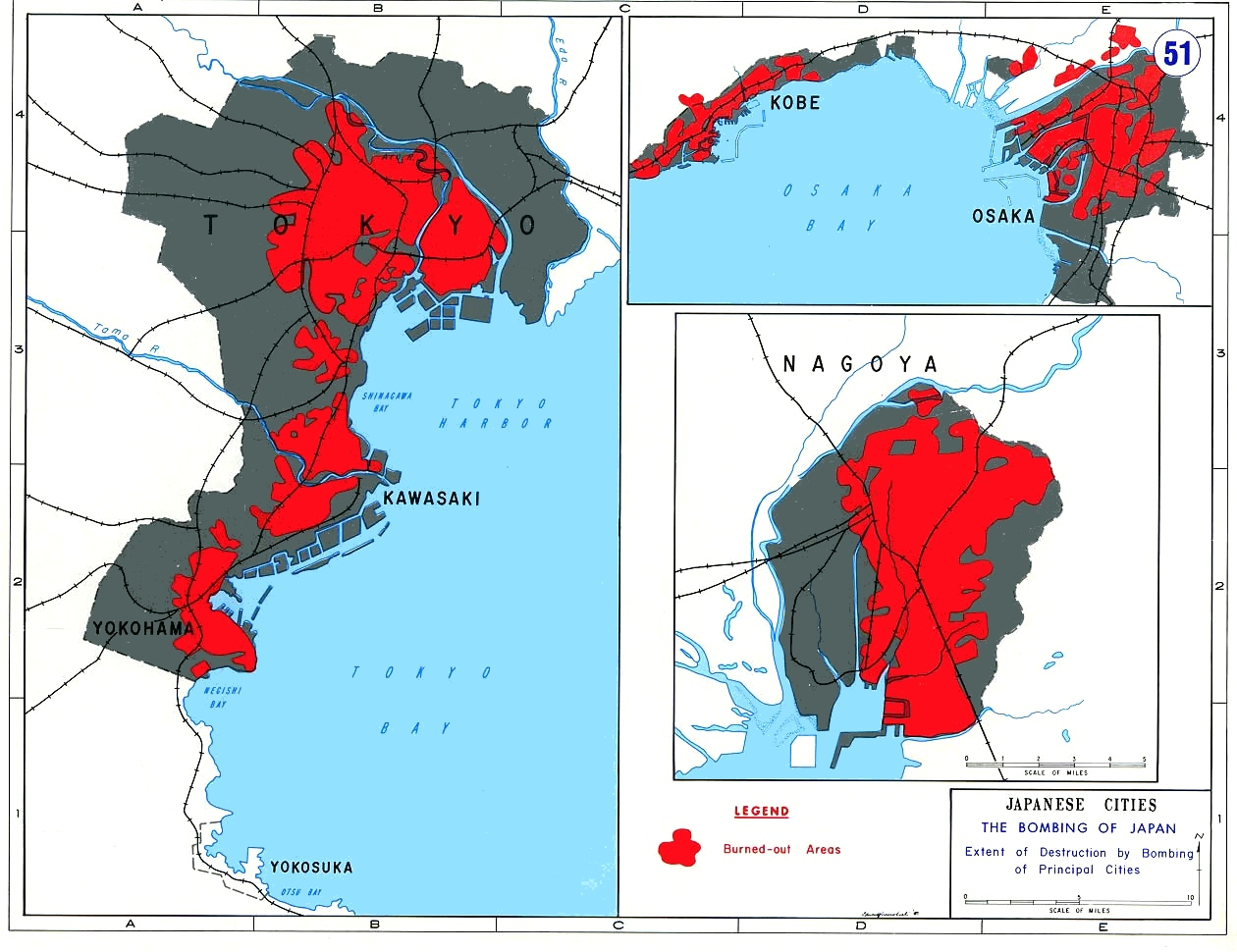 Maps showing the areas of Japan's principal cities destroyed by bombing during World War II